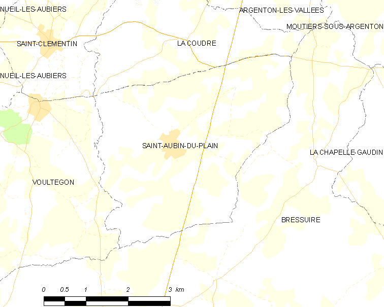 Map of French municipality Saint-Aubin-du-Plain